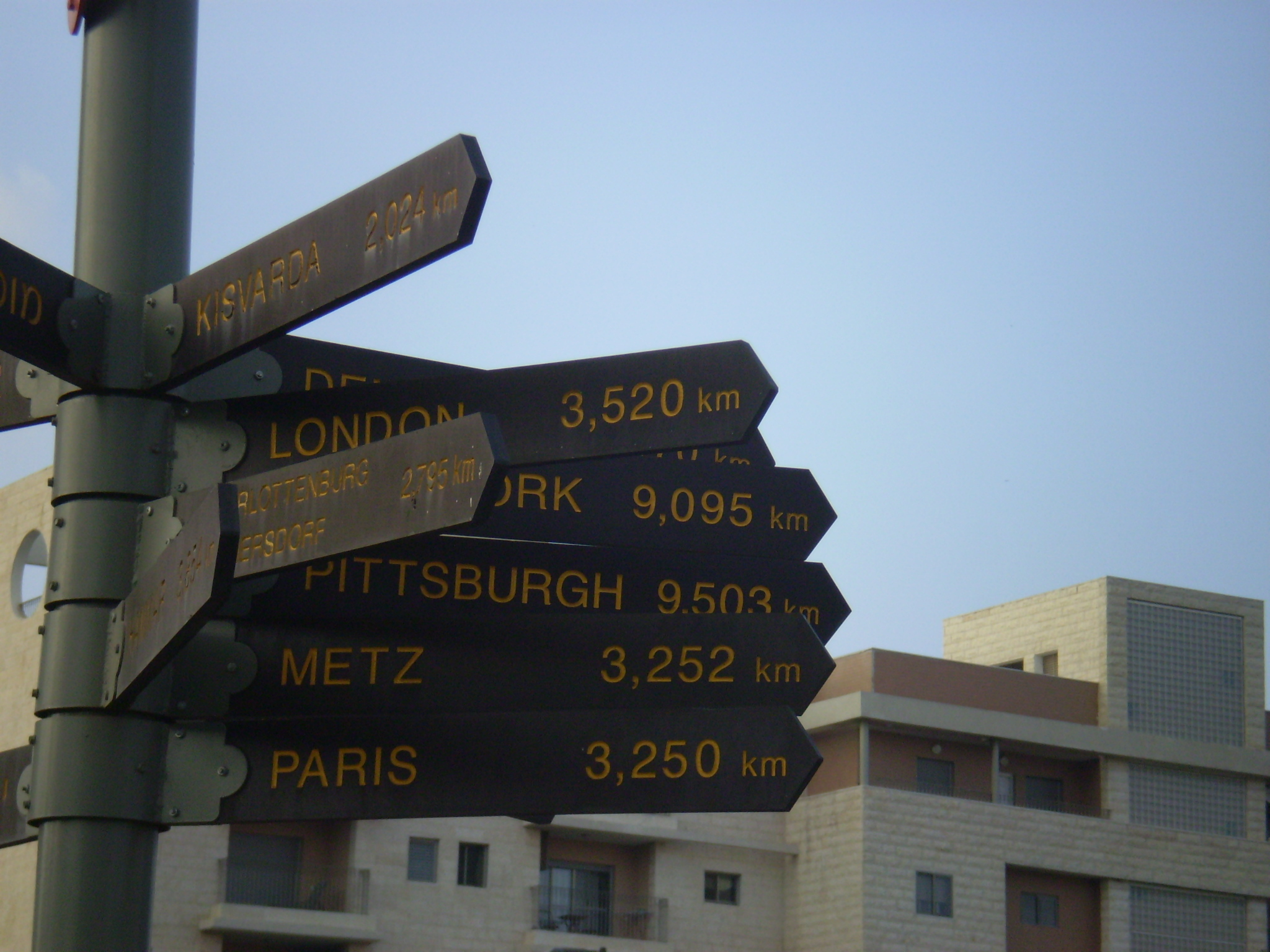 The sign in Karmiel, Israel. Distance to Pittsburgh PA, USA